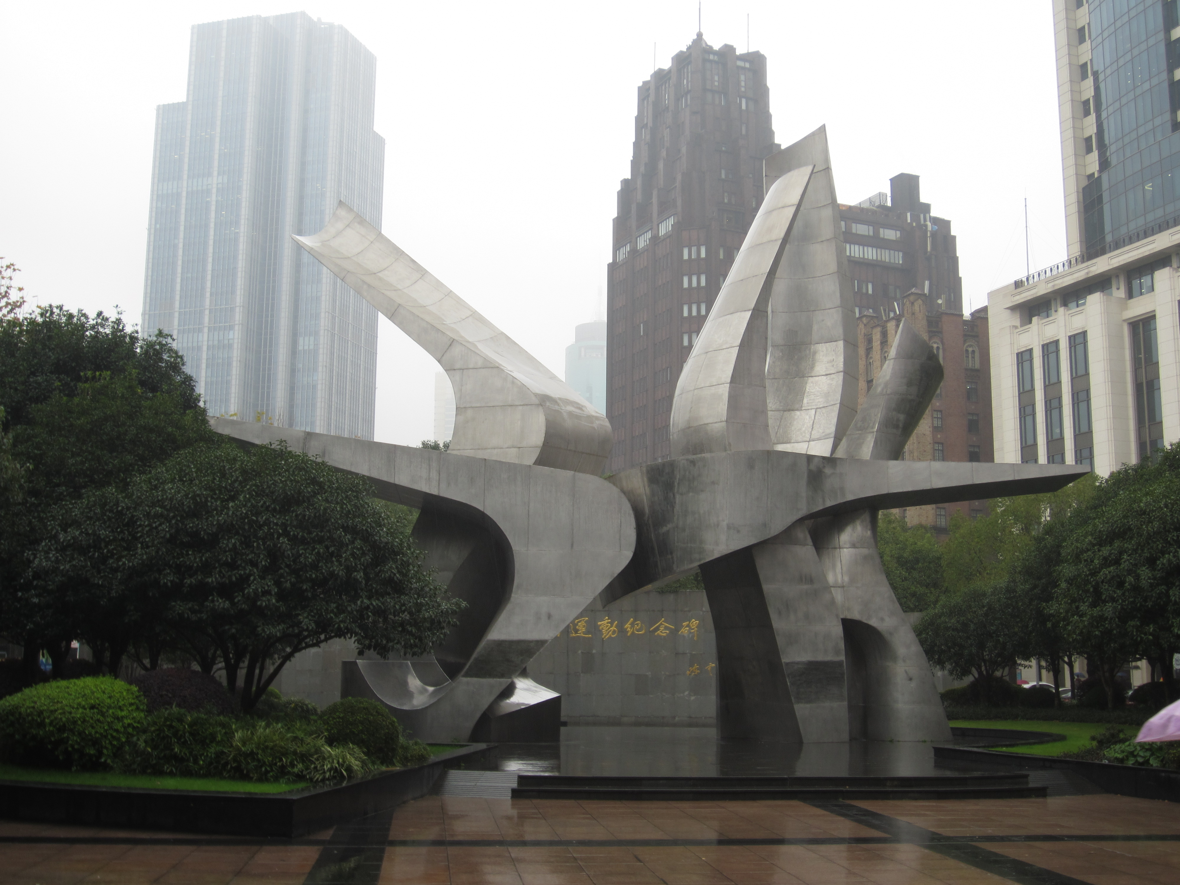 May Thirtieth Movement Monument, People's Park, Shanghai, China (2015)